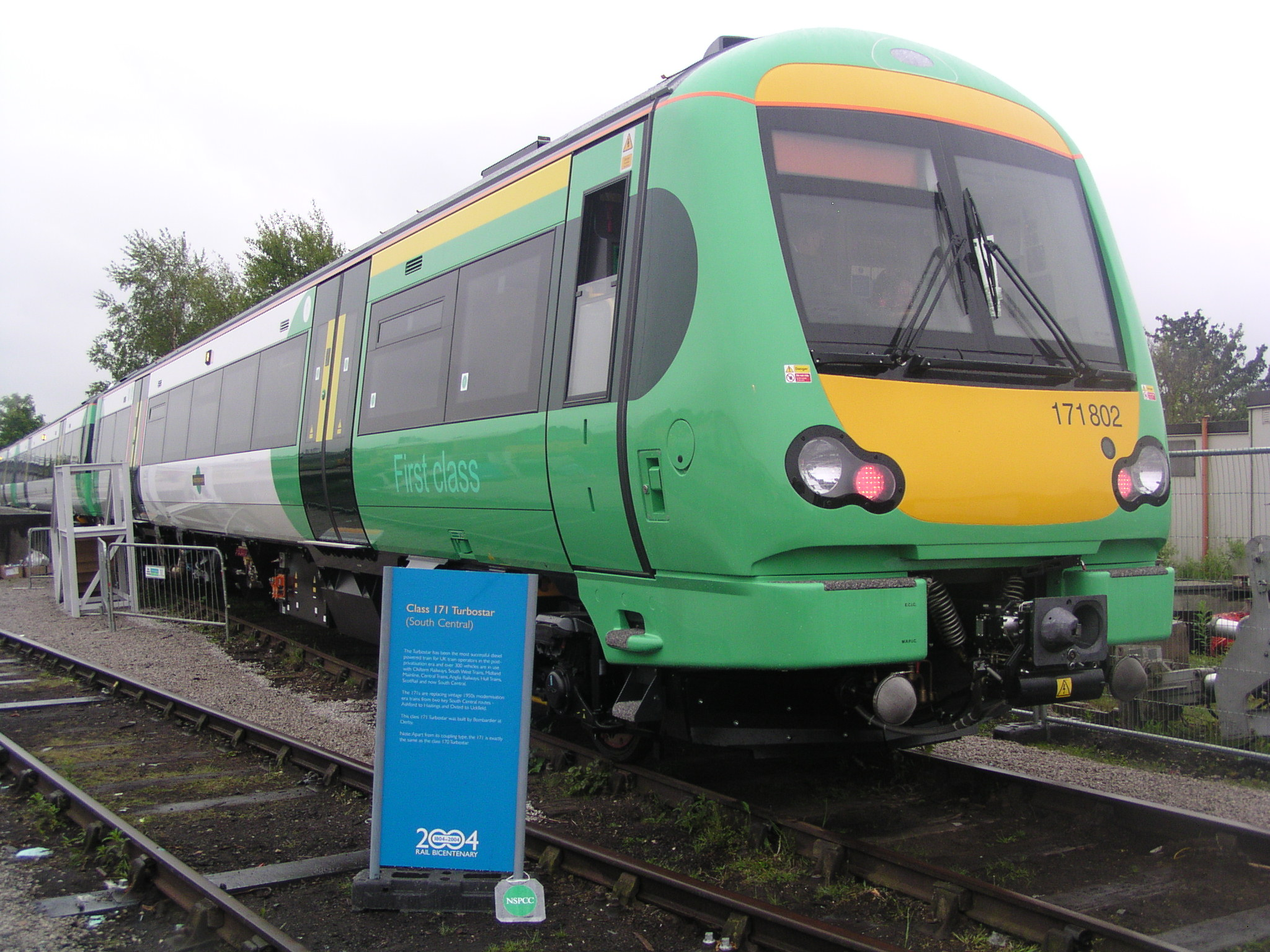 BR Class 171, no. 171802 at York Railfest